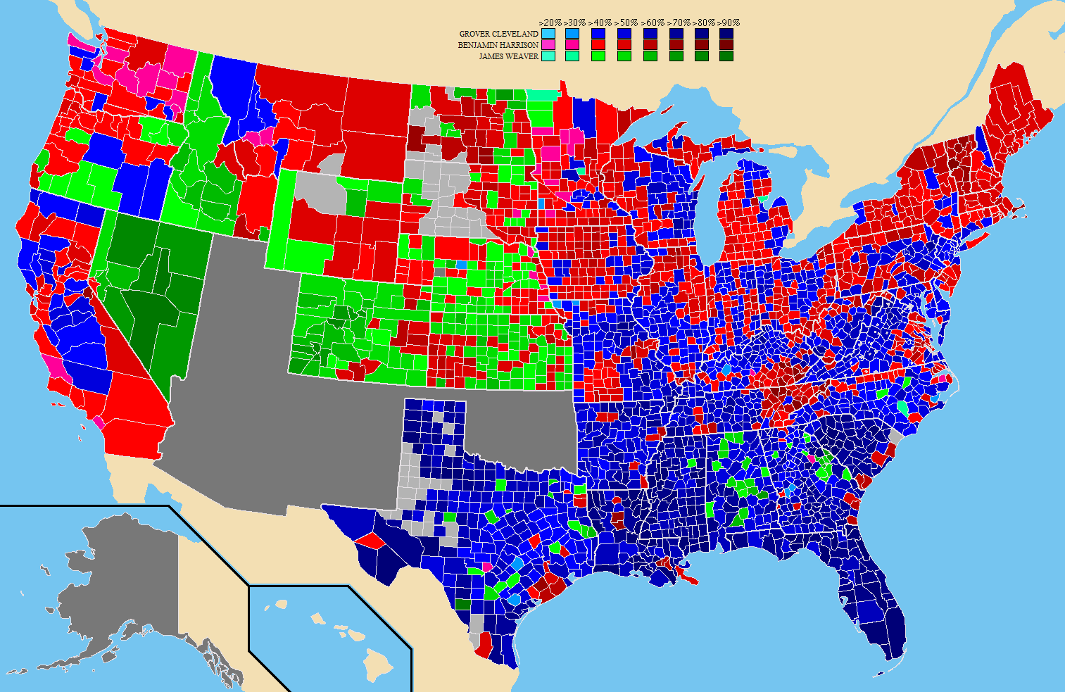 Map showing the results by county of the 1892 United States presidential election specifically identifying the percentage recieved by the winning candidate in each county. Counties with no information or results are in grey.